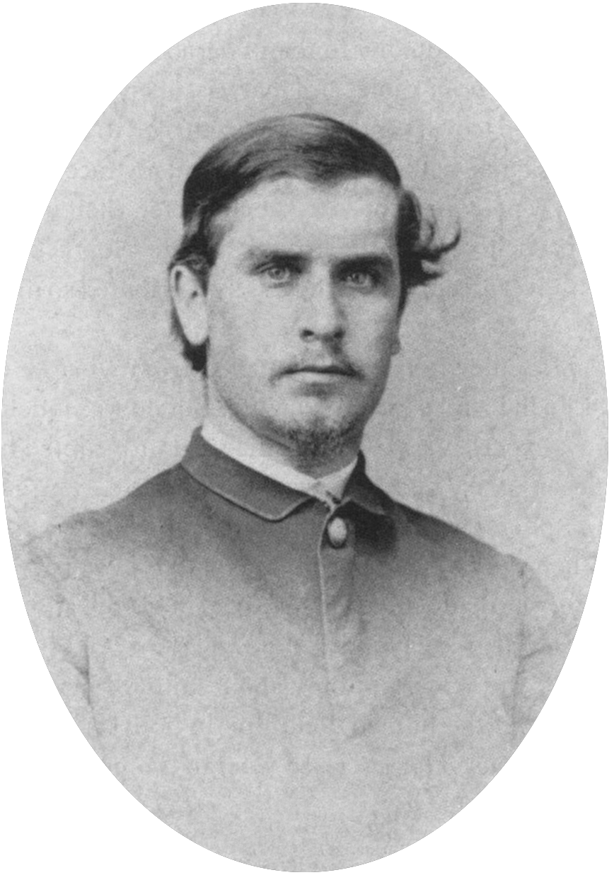 Photograph of William McKinley, 1865